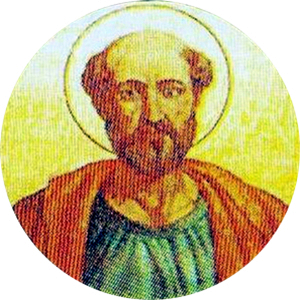 Portrait of Pope Telesphorus in the Basilica of Saintr Paul Outside the Walls, Rome